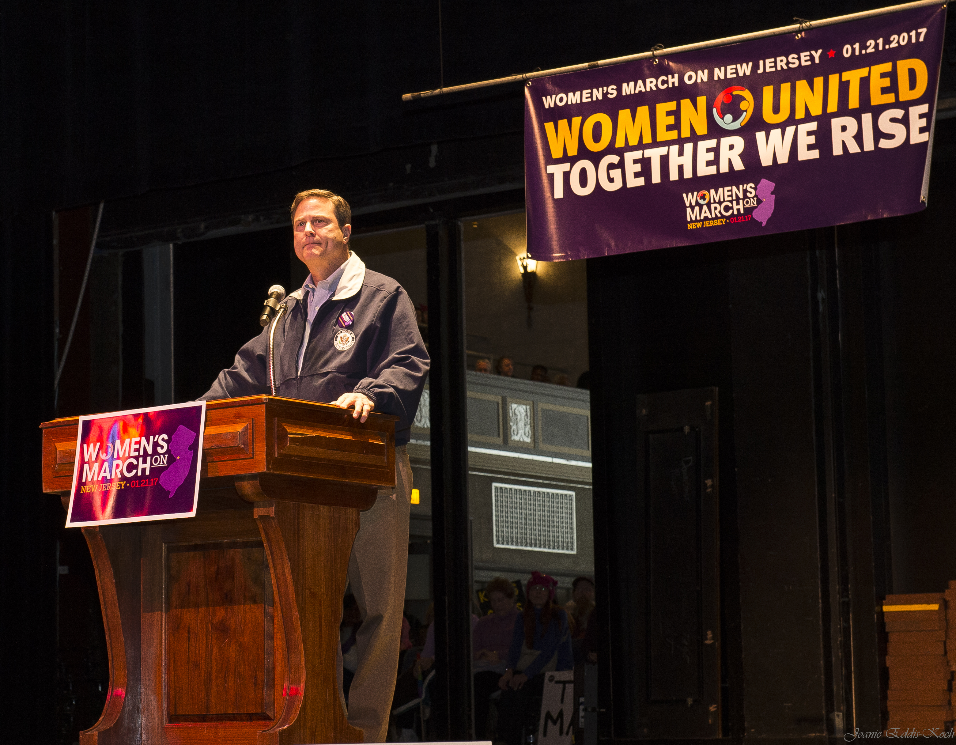 New Jersey State Assemblywoman Elizabeth Muoio speaks to the crowd in Trenton attending the Women's March on New Jersey 1 21 17